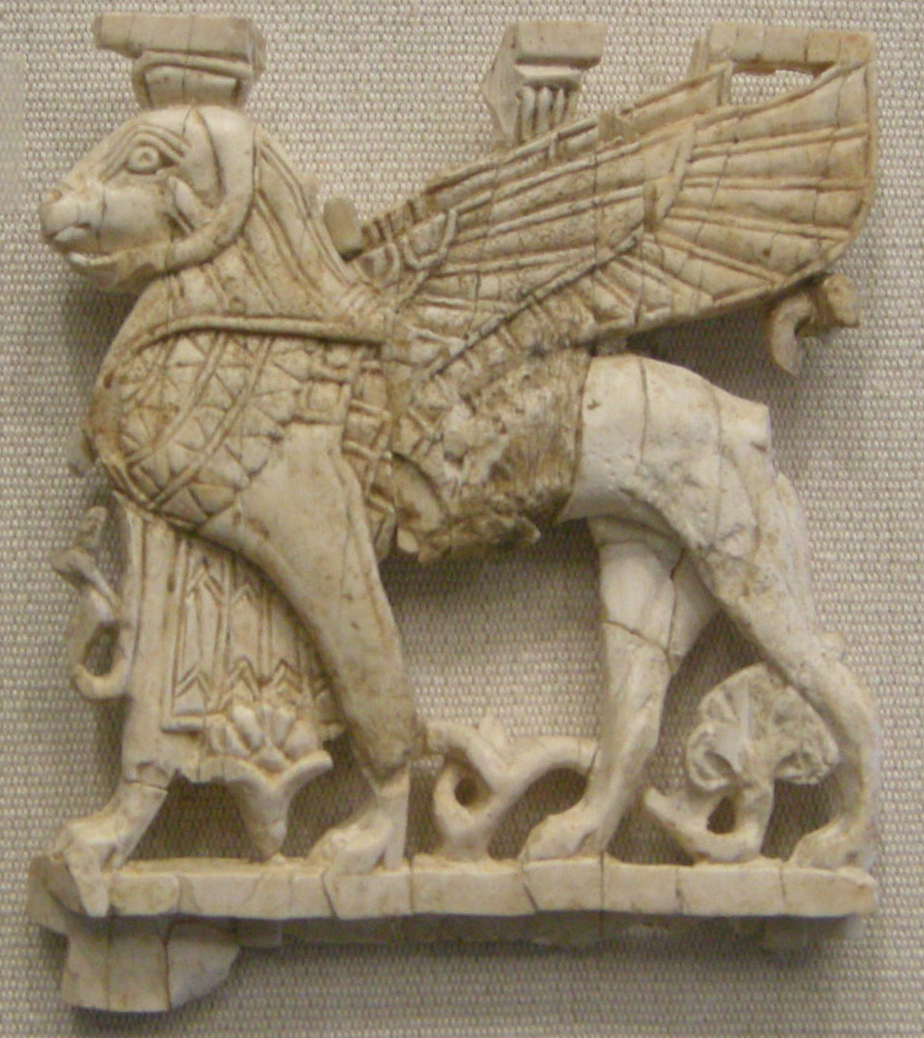 Nimrud ivory plaque with ram-headed sphinx, Assyrian, Syro-Phoenician, 8th-7th century BCE, California Palace of the Legion of Honor